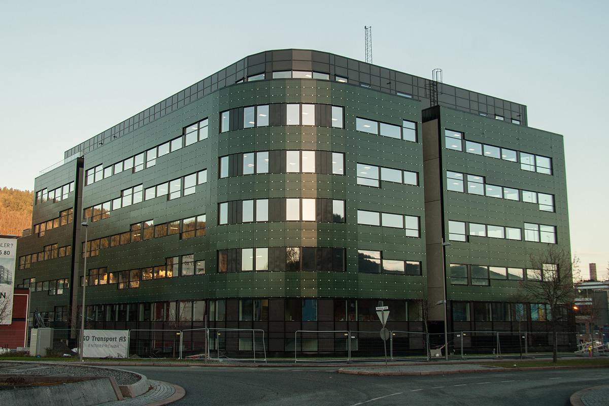 Energibygget på Union Brygge. The green walls are low-energy solar panels.